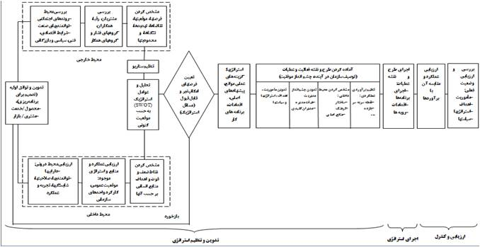 strategic planning3